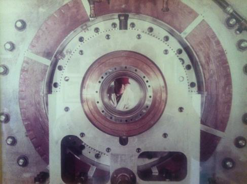 Demonstration fusion reactor, using the principal of repetitive implosion and re-capture of a liquid liner, based on rotational stabilization and free-piston drive.